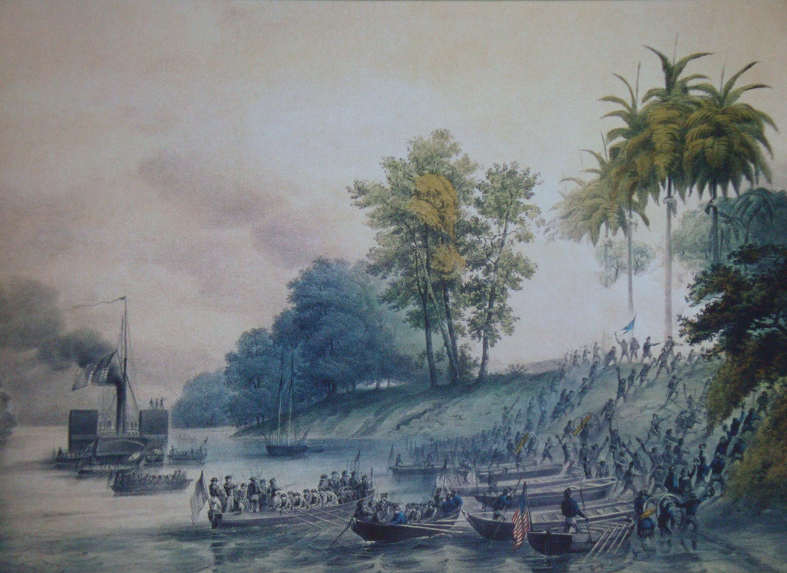 Disembarkation in San Juan Bautista, capital of the Mexican state of Tabasco, during the American intervention carried out between 1846 and 1847. On October 25 and 26, 1846 the "First Battle of Tabasco" was developed in which the Tabasco forces were victorious. On June 16, 1847, the "Second Battle of Tabasco" took place, the Americans emerging victorious, occupying the state capital. Finally the invaders were expelled from the state on July 22, 1847.